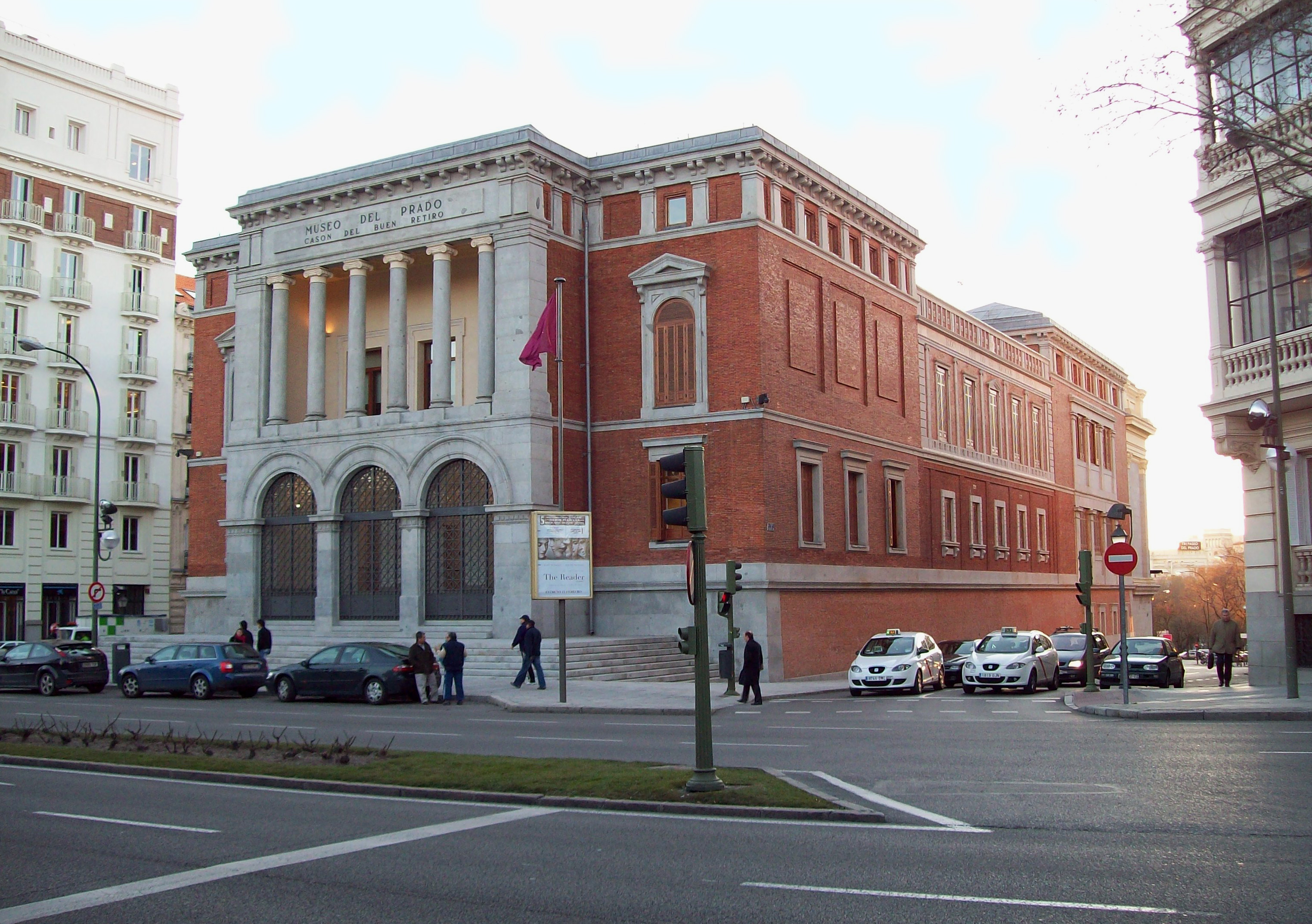 View, from the north-east angle (Calle de Alfonso XII, street), of Casón del Buen Retiro in Madrid (Spain).